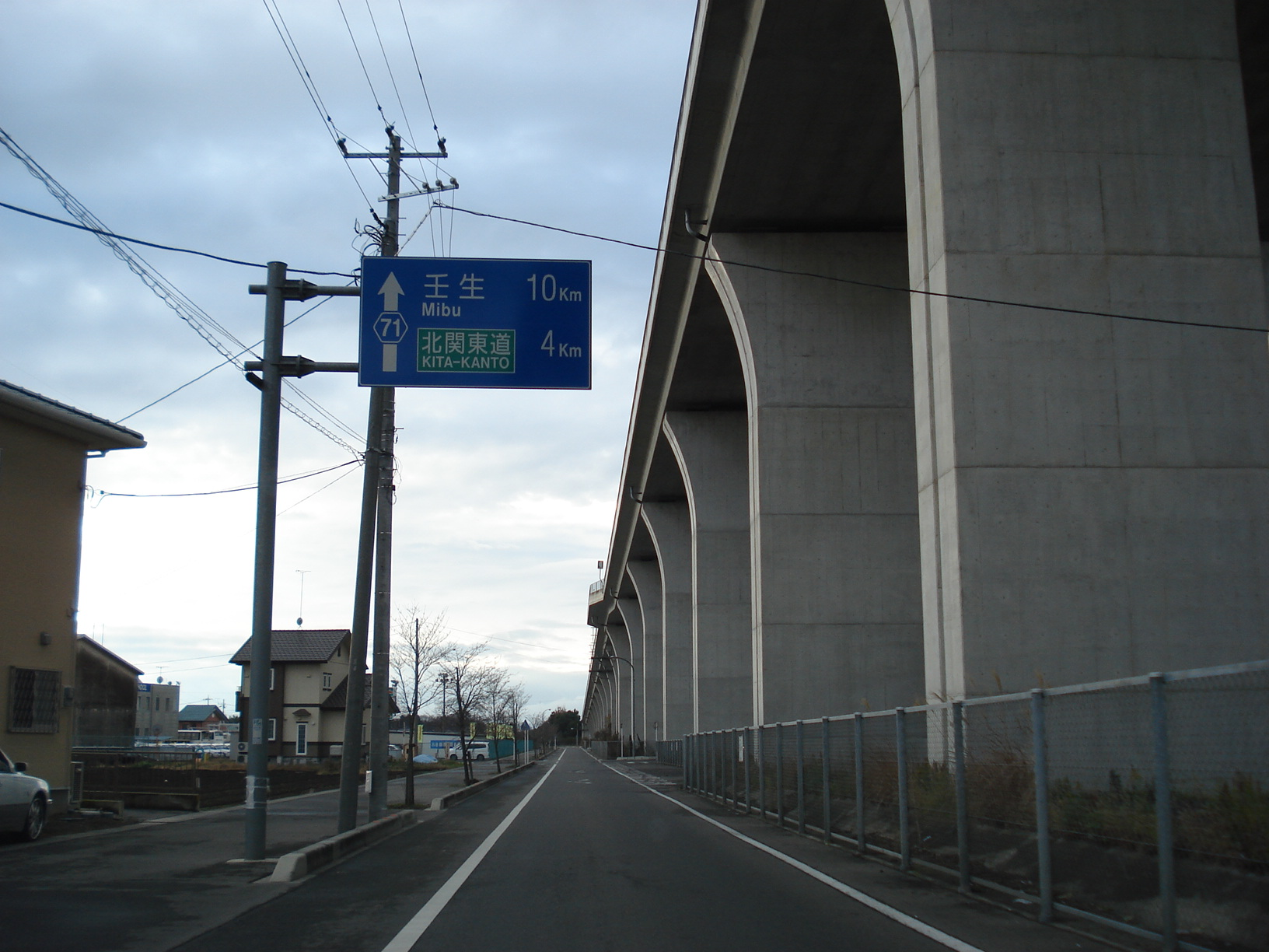 The Tochigi Prefectural Road Route 71 bypass road in Shimokoyama, Shimotsuke City